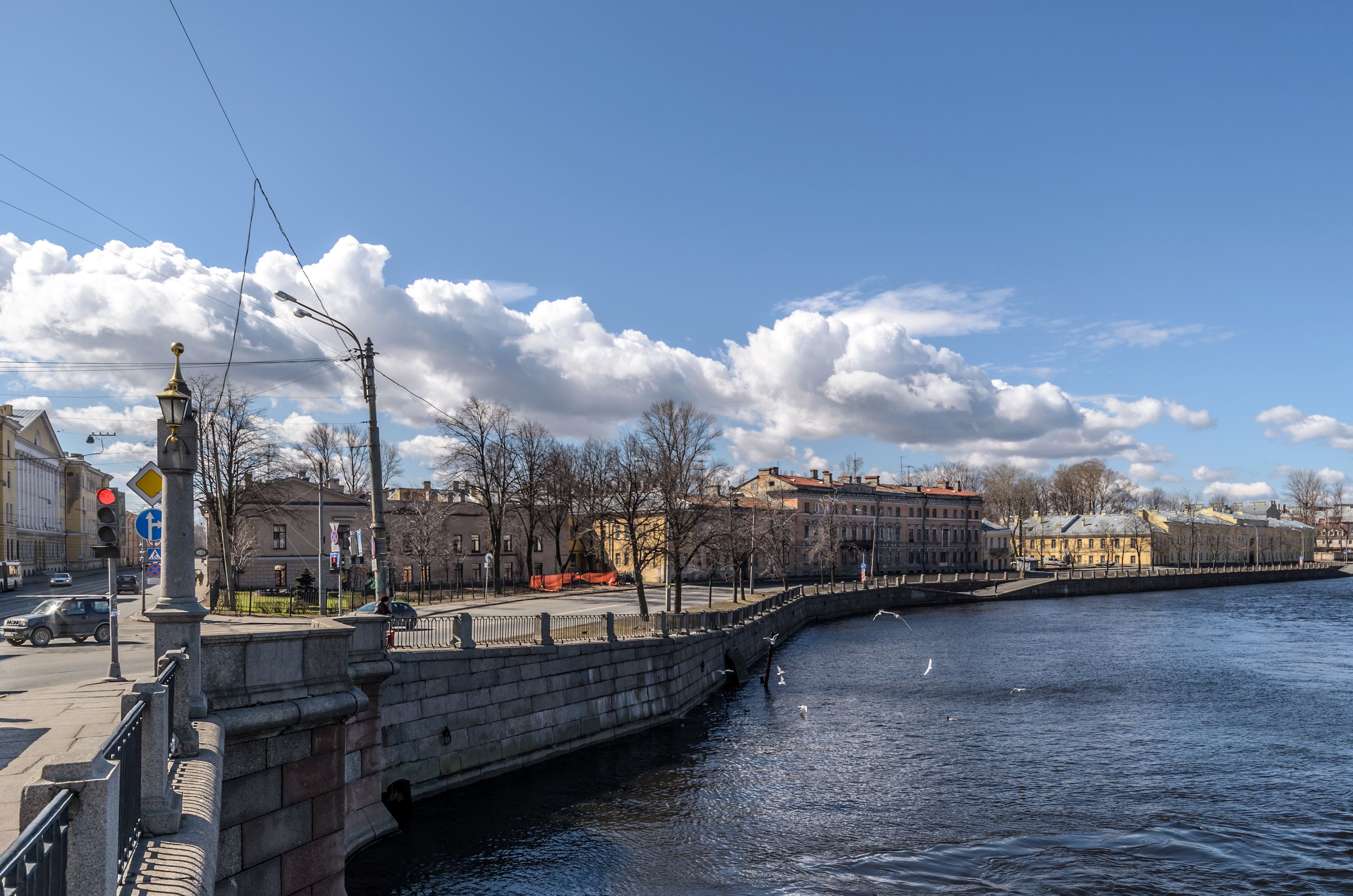 Fontanka Embankment near Staro-Kalinkin Bridge in Saint Petersburg